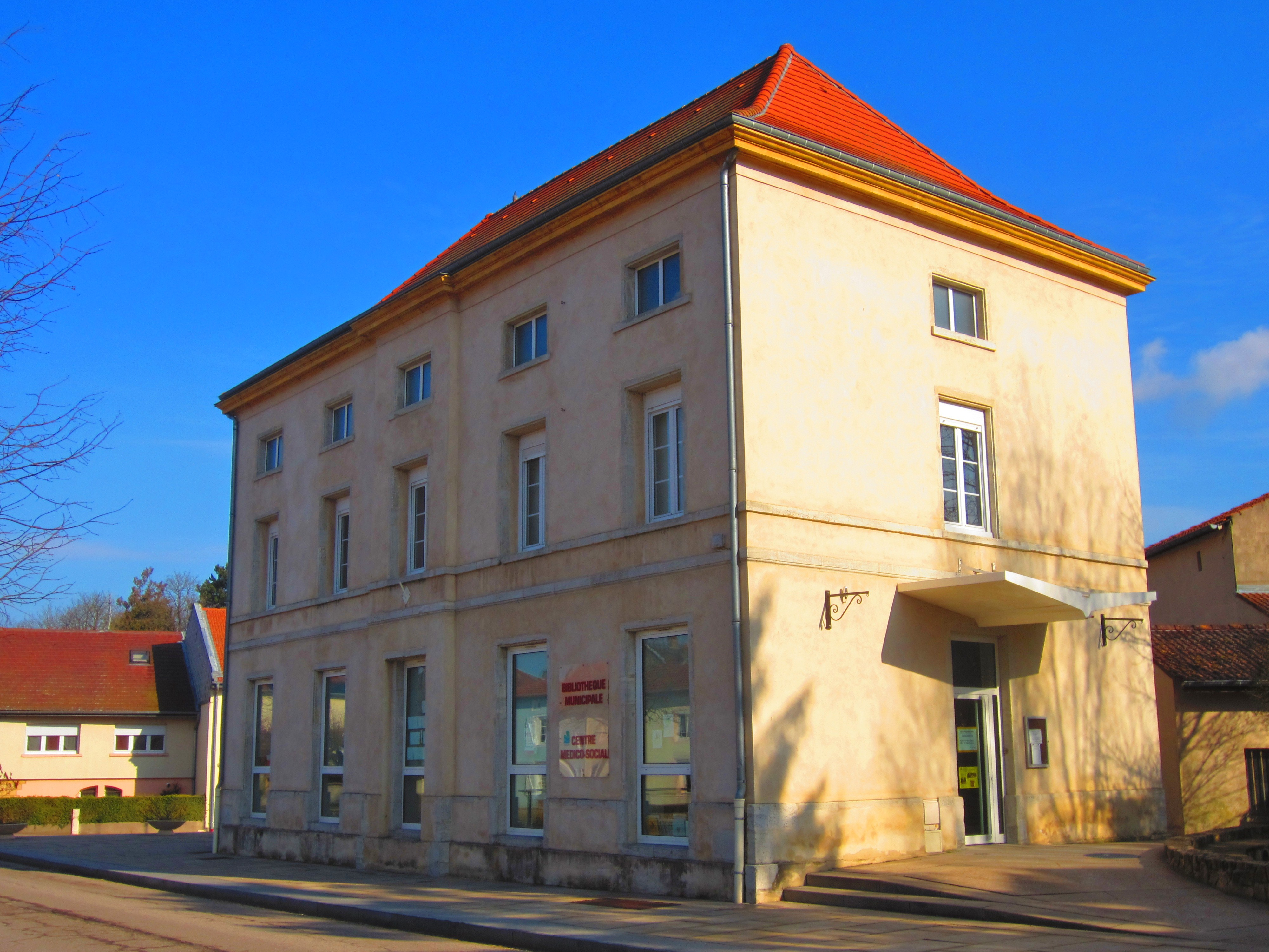 Courcelles Chaussy library